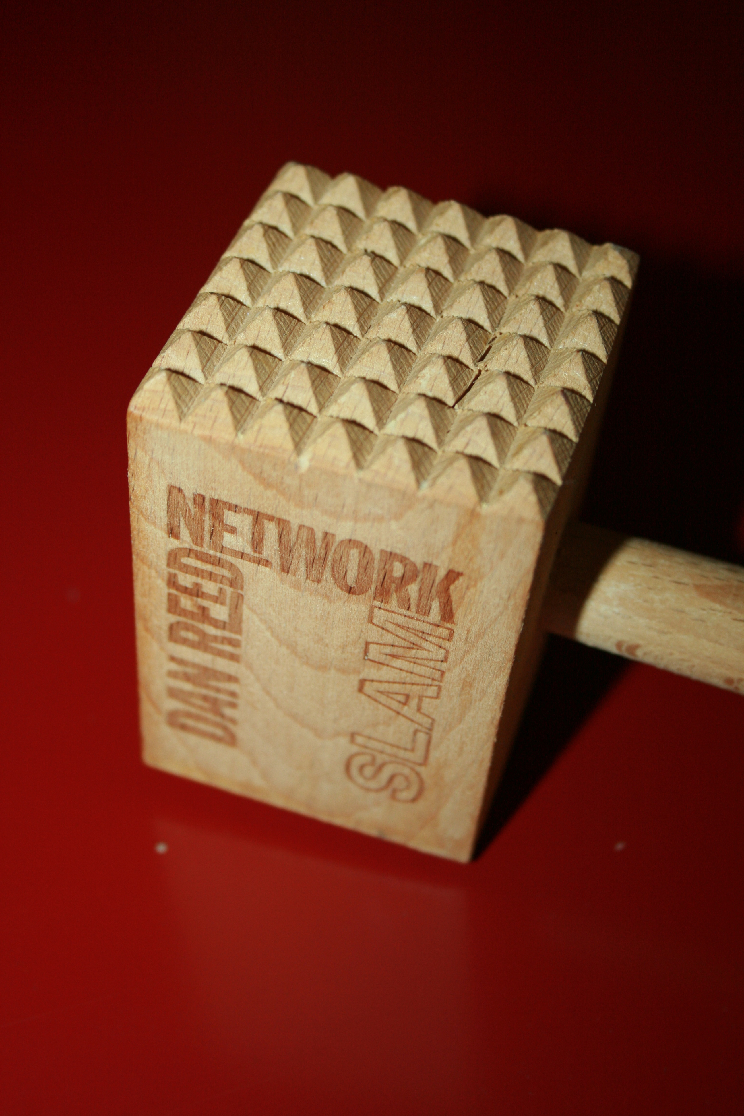 Meat Hammer, promotional item to Dan Reed Network's album "Slam", 1989